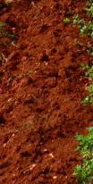 Cropped version of Image:Malvasia Vine on Terra Rossa soil.JPG to highlight the terra rossa soil. Original photo released under an attribution sharealike photo by user commons user User:Scops. Cropped version released under same license.